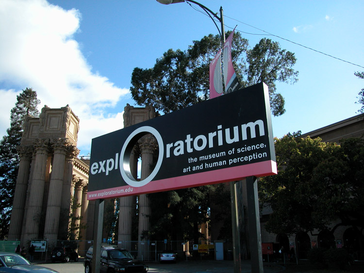 Exploratorium, in San Francisco